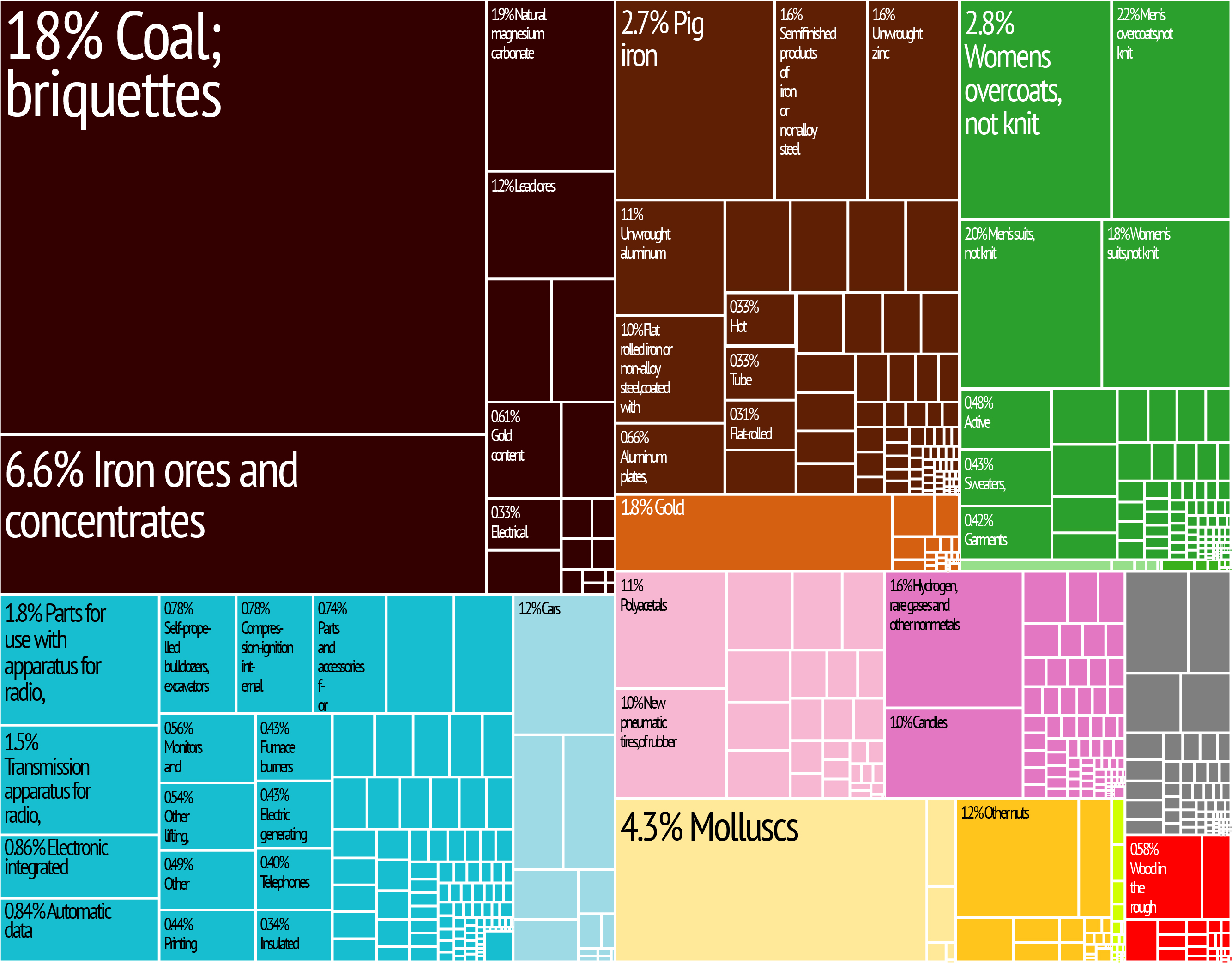 Korea DR Export Treemap from MIT Harvard Economic Complexity Observatory